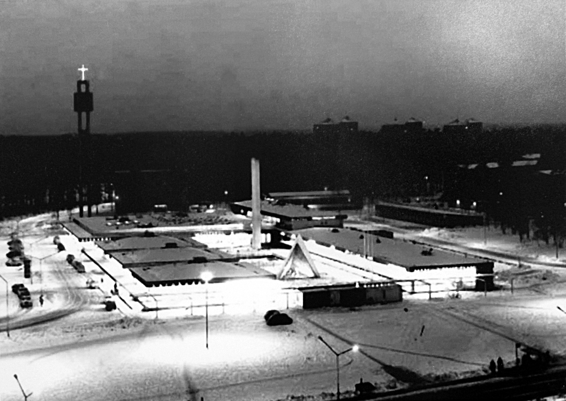 The Munkkivuori shopping center in Helsinki, Finland.